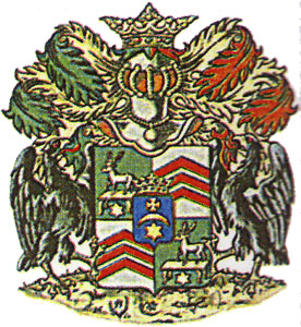 Coat of arms of the Dashkov family.